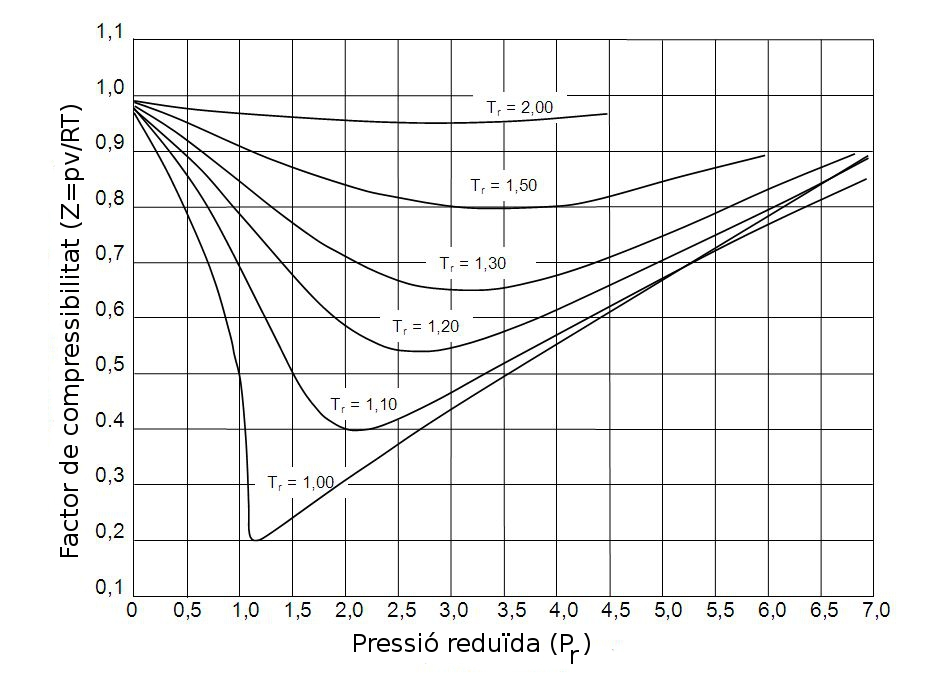 Generalized diagram of compressipility factor (Z=pv/RT).